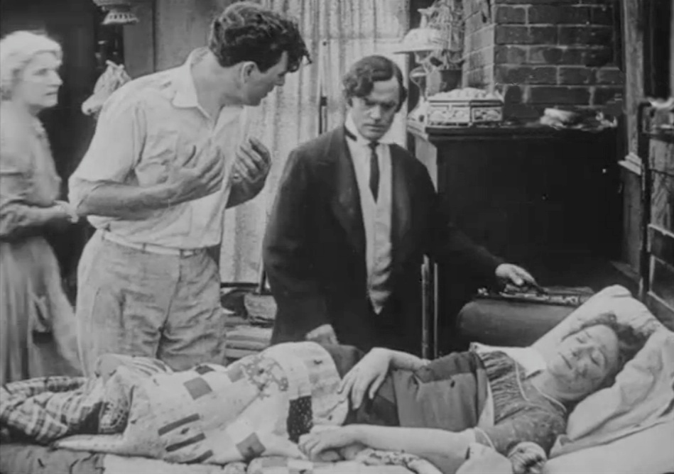 Out of the Darkness is a 1915 American drama silent film directed by George Melford and written by Hector Turnbull. The film stars Charlotte Walker, Thomas Meighan, Marjorie Daw, Hal Clements, Tom Forman and Loyola O'Connor. The film was released on September 9, 1915, by Paramount Pictures. This is one scene from the film (with modern watermark digitally removed, as is policy) at about the 34 minute and 55 second mark.